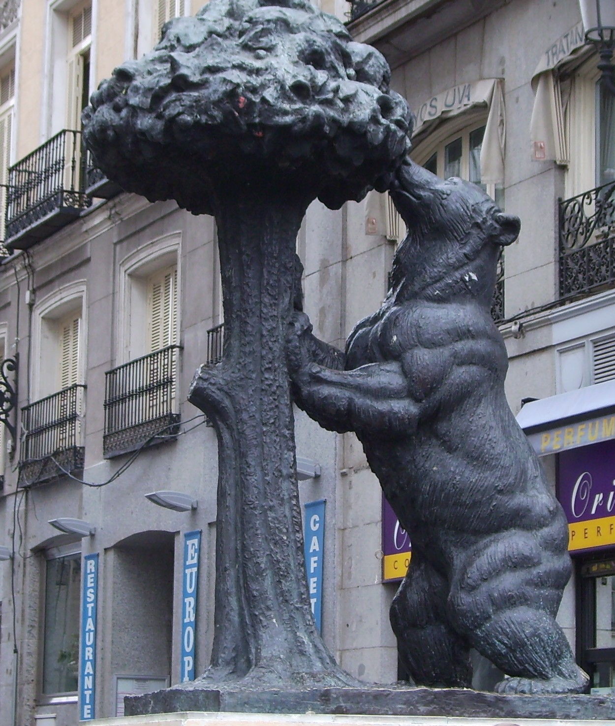 crest of Madrid as a benchmark from the Plaza de la Puerta del Sol